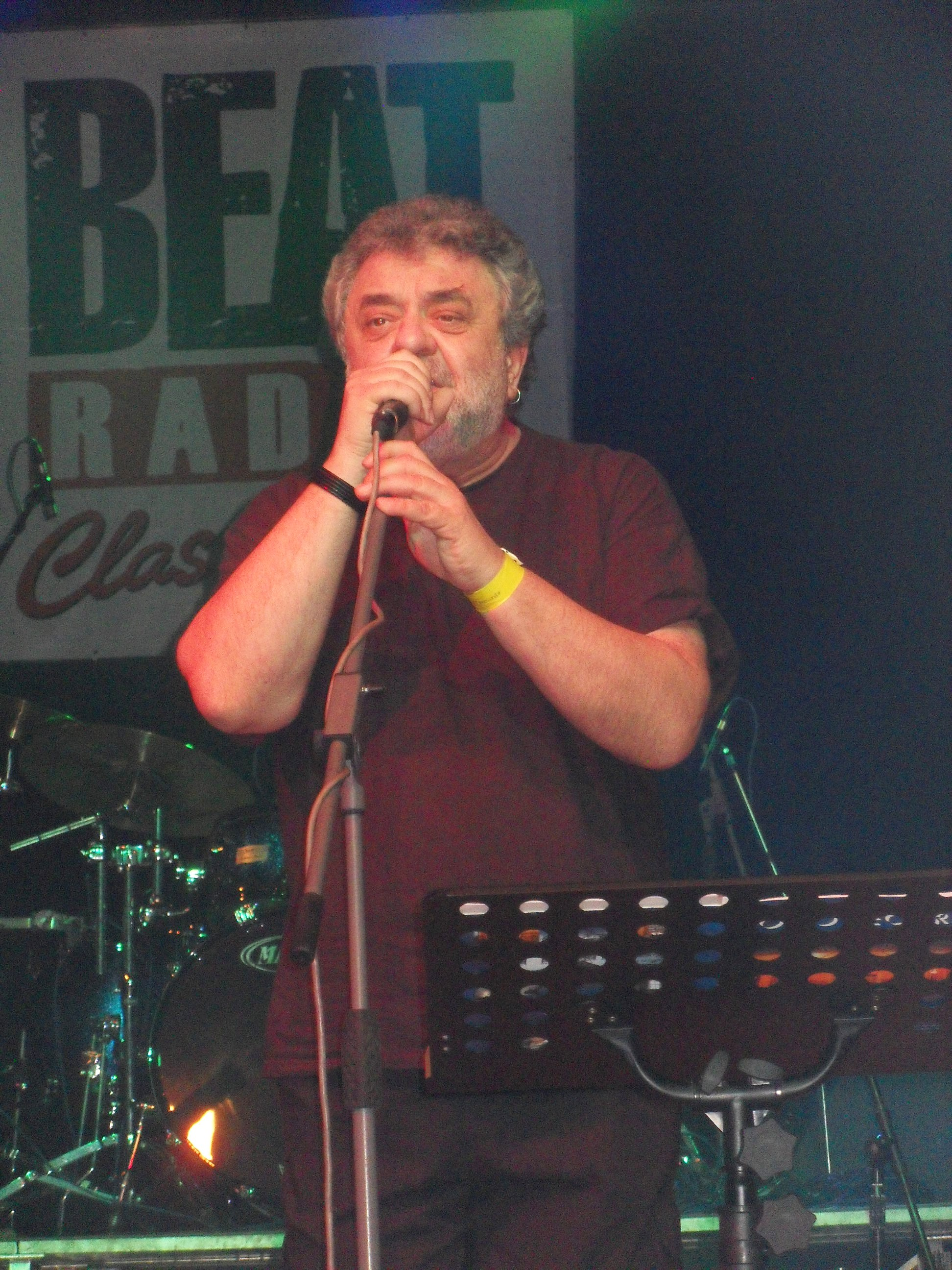 Vocalist Oskar Petr of Czech band Jazz Q, Brno, Czech Republic